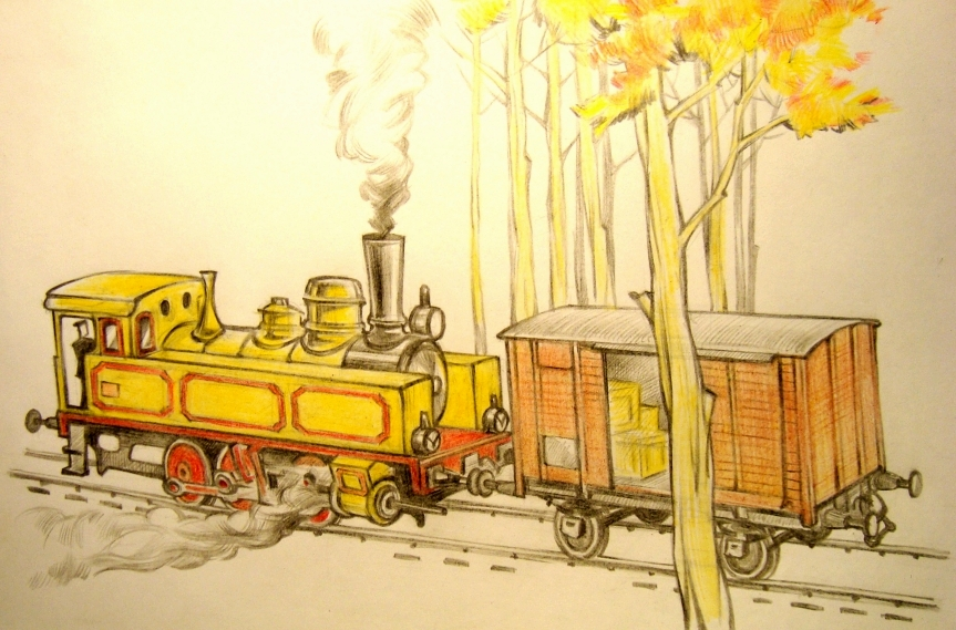 Russian tank locomotive Yer' series, type 19 - the first tank loc of russian construction.